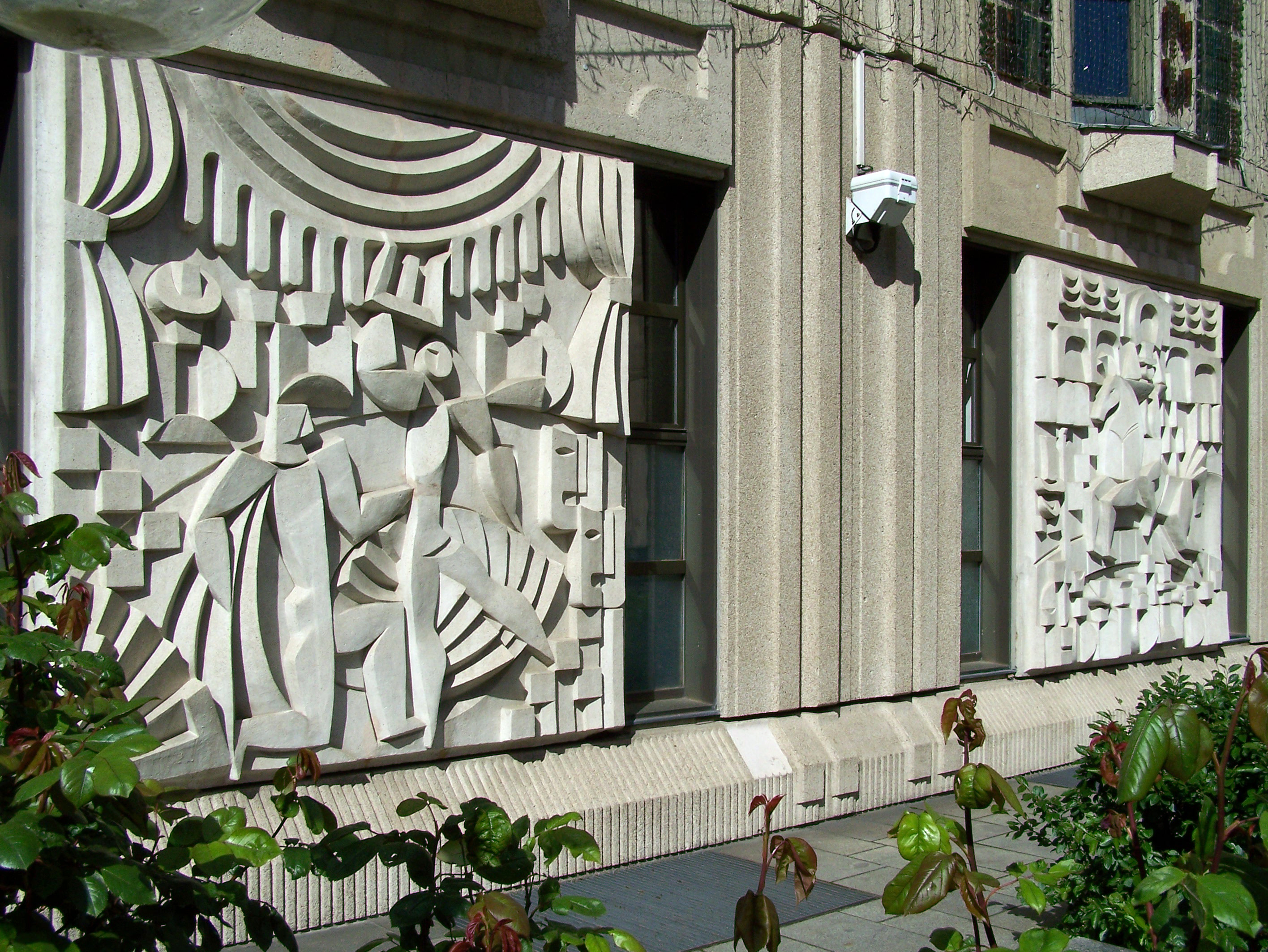 Reliefs at the Friedrichstadtpalast in Berlin. These are the Ziegelstrasse. Made by Emilia Bayer between 1982 and 1984.